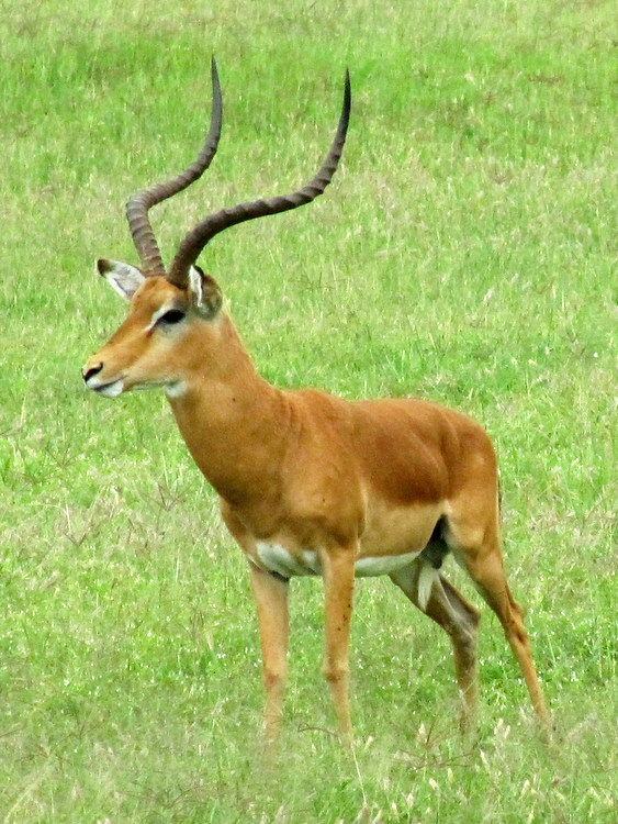 Male Impala in Lake Nakuru National Park, Kenya